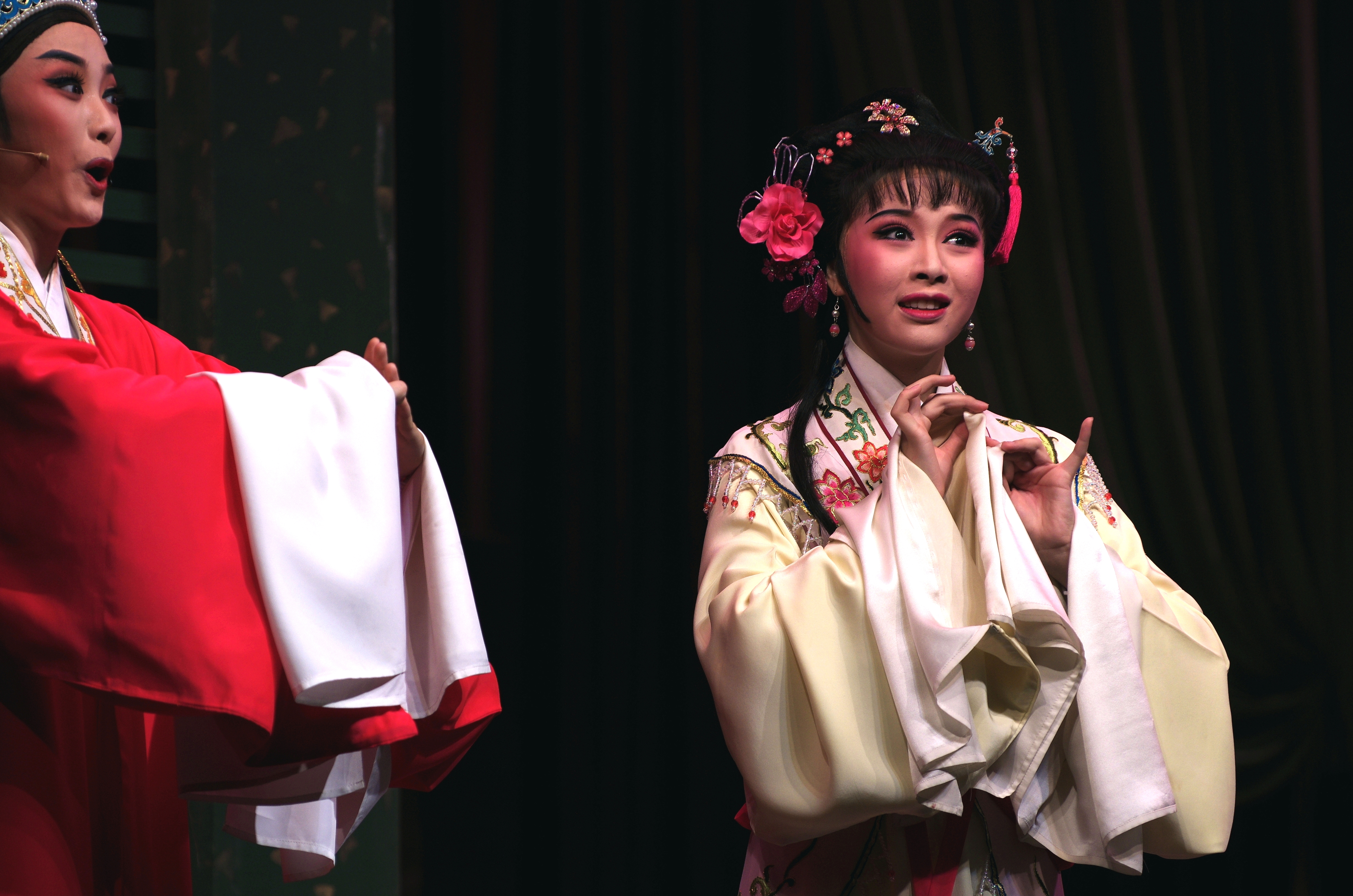 A Shaoxing opera performance of Romance of the Western Chamber in Tianchan Theatre, Shanghai, China. The actresses, Wang Wanna (王婉娜) and Chen Xinyu (陈欣雨) were students at Shanghai Theatre Academy.